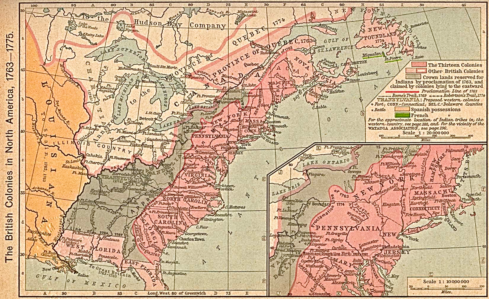 Map of the British colonies in North America, 1763 to 1775. This was first published in: Shepherd, William Robert (1911) "The British Colonies in North America, 1763–1765" in Historical Atlas, New York, United States: Henry Holt and Company, pp. p. 194 Retrieved on 27 October 2010.